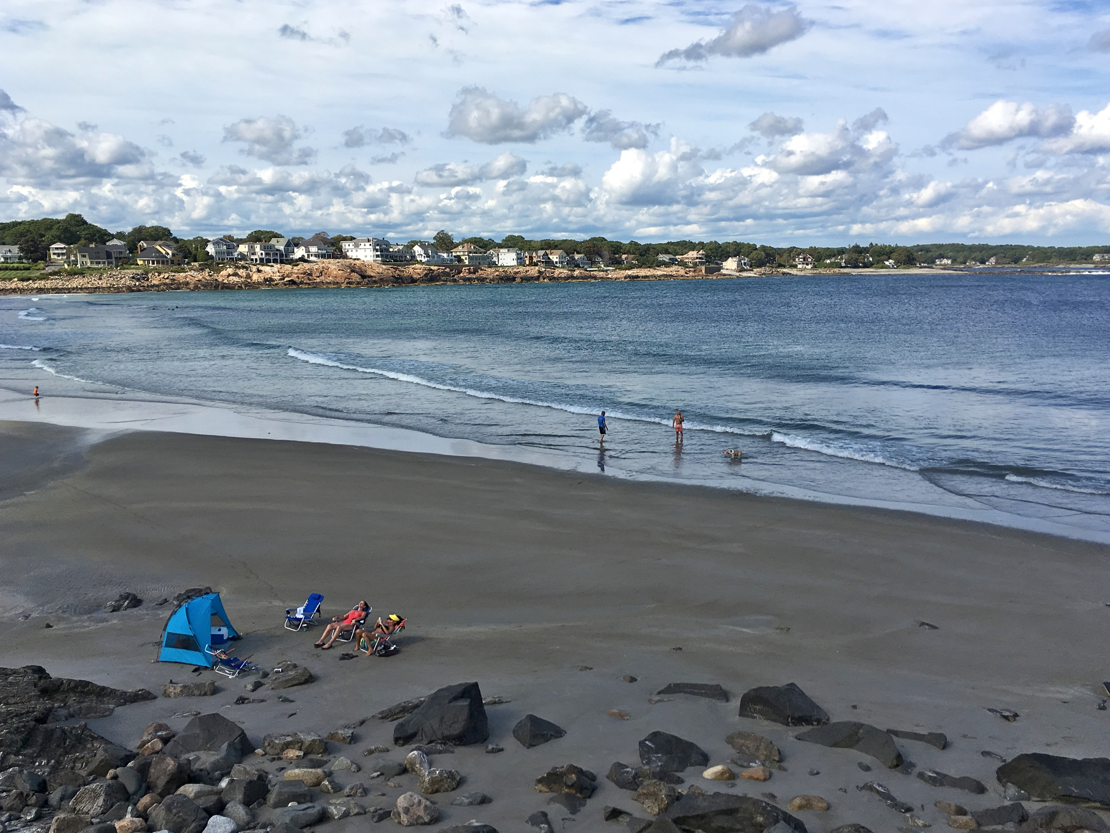 Short Sands Beach at York Beach in September